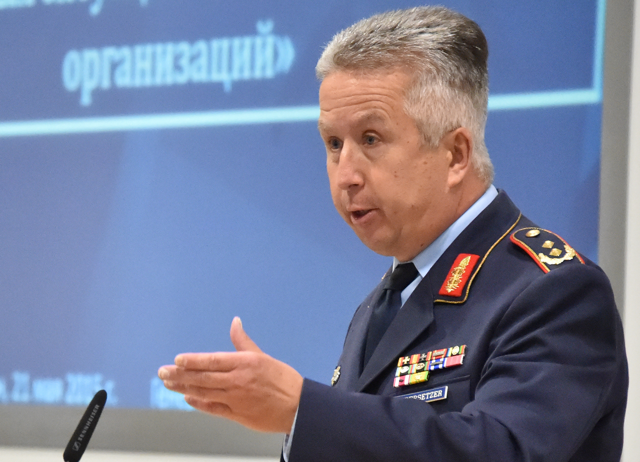 German Luftwaffe (Air Force) Maj. Gen. Klaus Habersetzer, chief of staff and deputy commander of the Multinational Joint Headquarters in Ulm, gave his closing remarks May 21 at the graduation of the Seminar on Regional Security resident program at the George C. Marshall European Center for Security Studies in Garmisch-Partenkirchen, Germany.